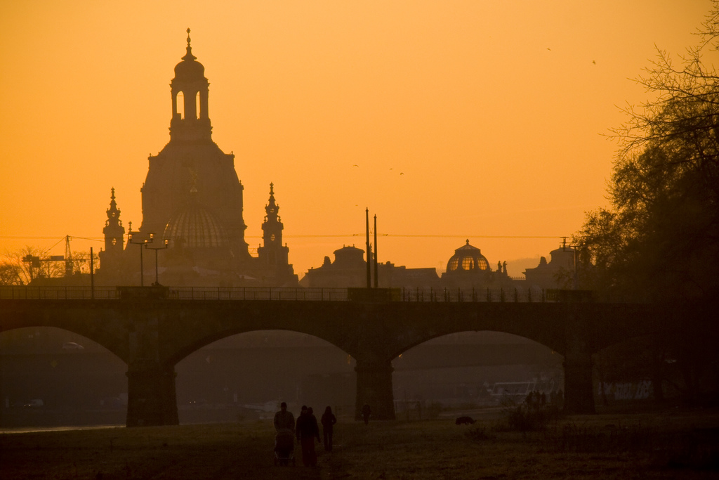 Shot of the Frauenkirche (Dresden, Germany) from the Albertbrücke.